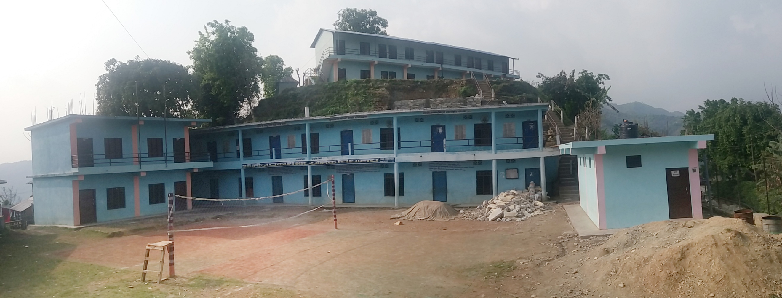 Shree Bhoj Praksh Secondary School